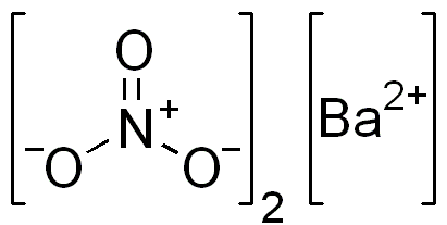 chemical structure of barium nitrate